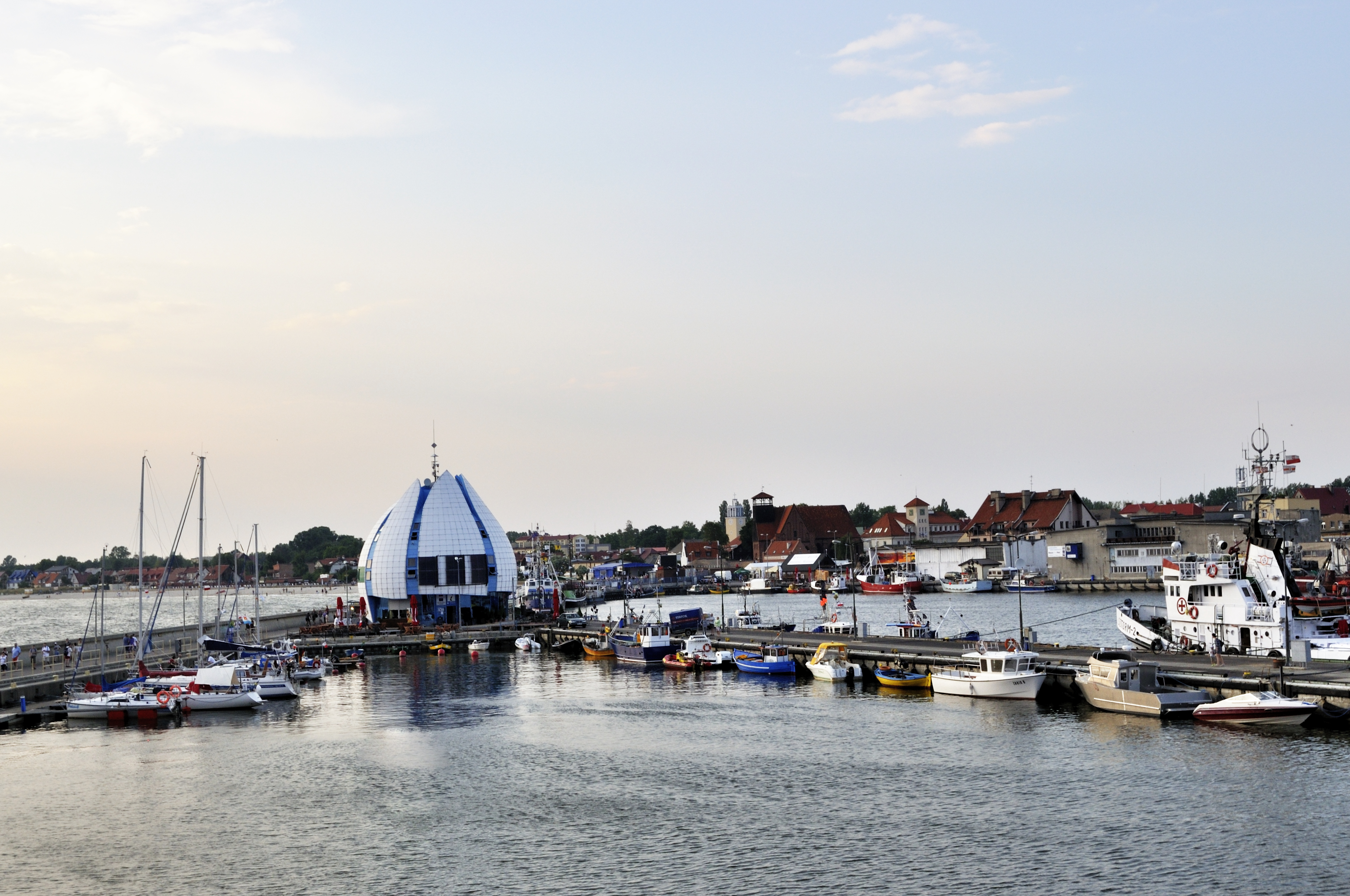 Picture taken in Hel after Wikimania 2010 conference.